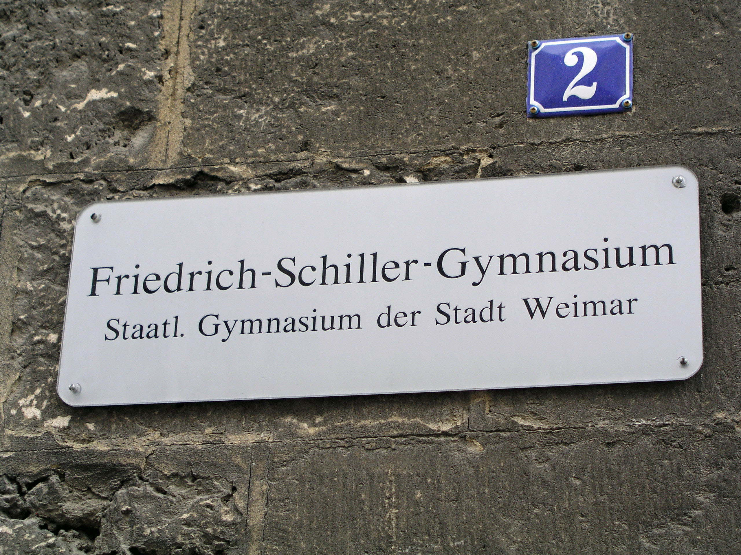 Sign on building of Friedrich-Schiller-Gymnasium